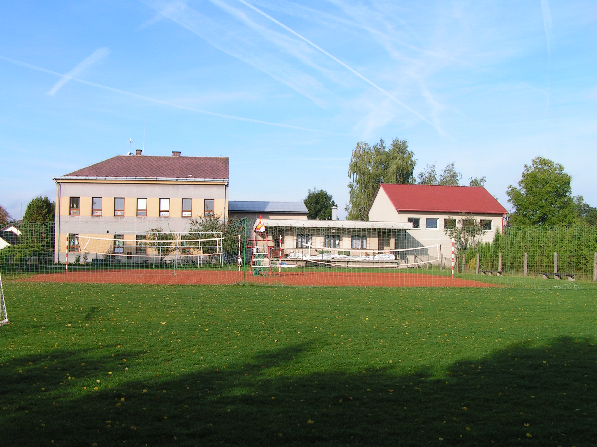 The school building in Radim (with club-room, gym and playground), Jičín dictrict